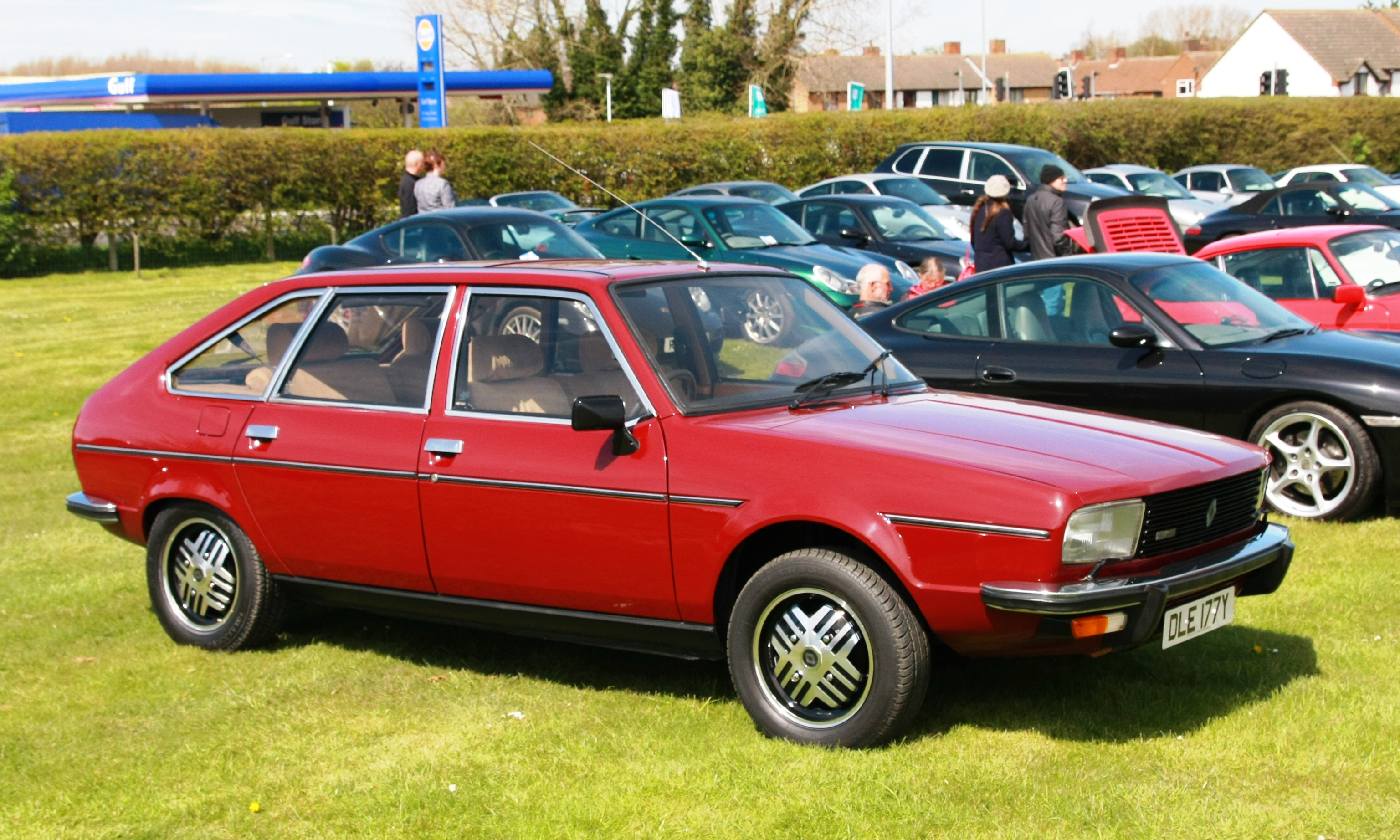 Renault 20 at Duxford